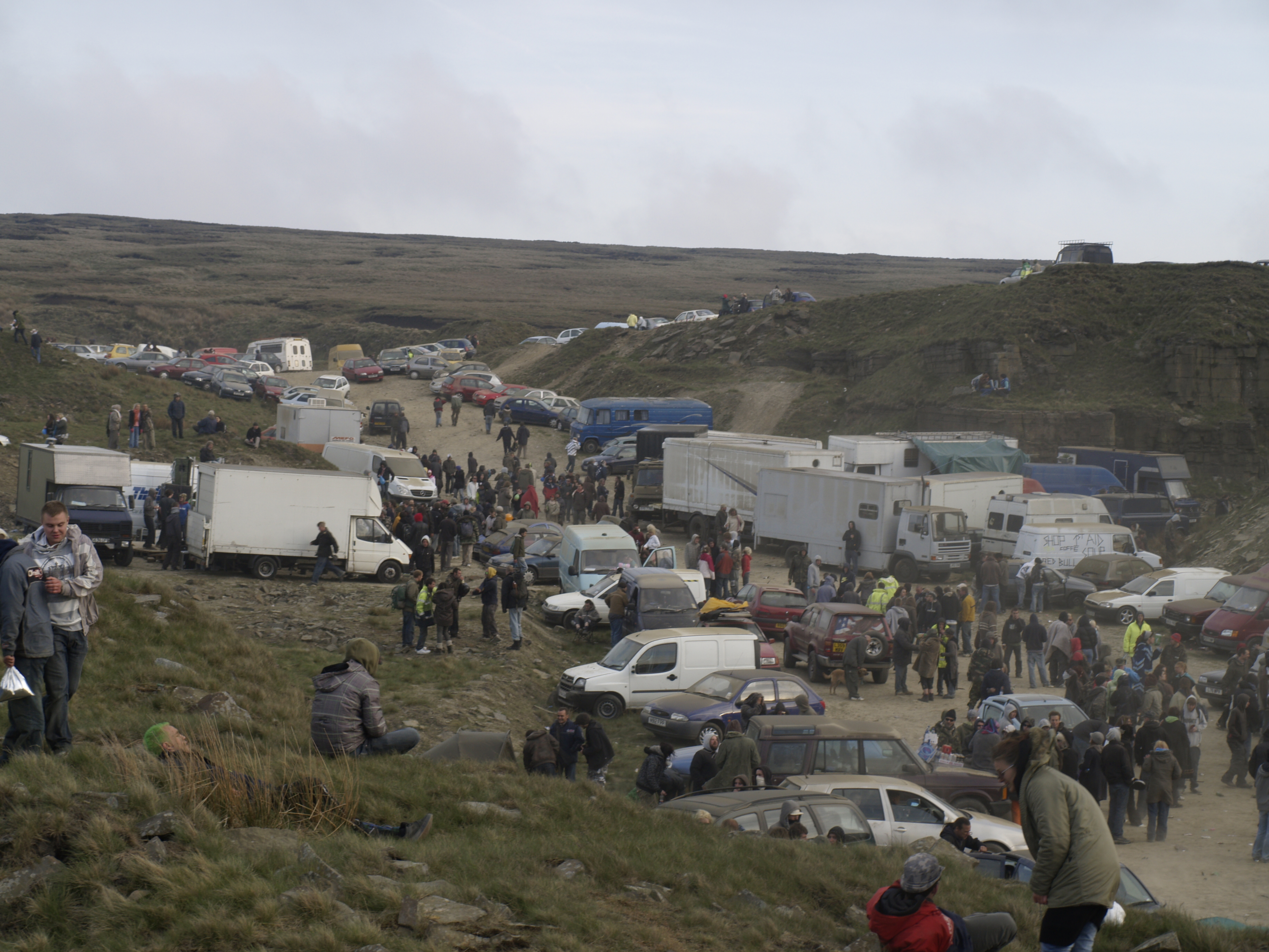 UK Tek, Teknival, Freeparty, Rave, Freetekno, Technoval, Acid Techno Manchester 2008